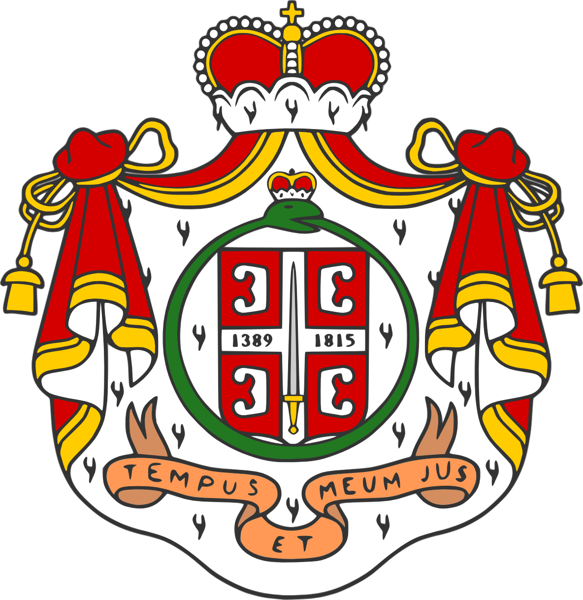 Coat of Arms of the Prince of Serbia Milan Obrenovic IV, later proclaimed King Milan I.